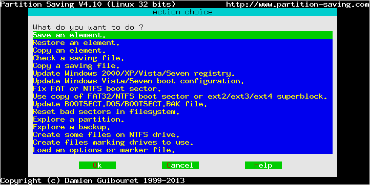 Partition-Saving initial screen.